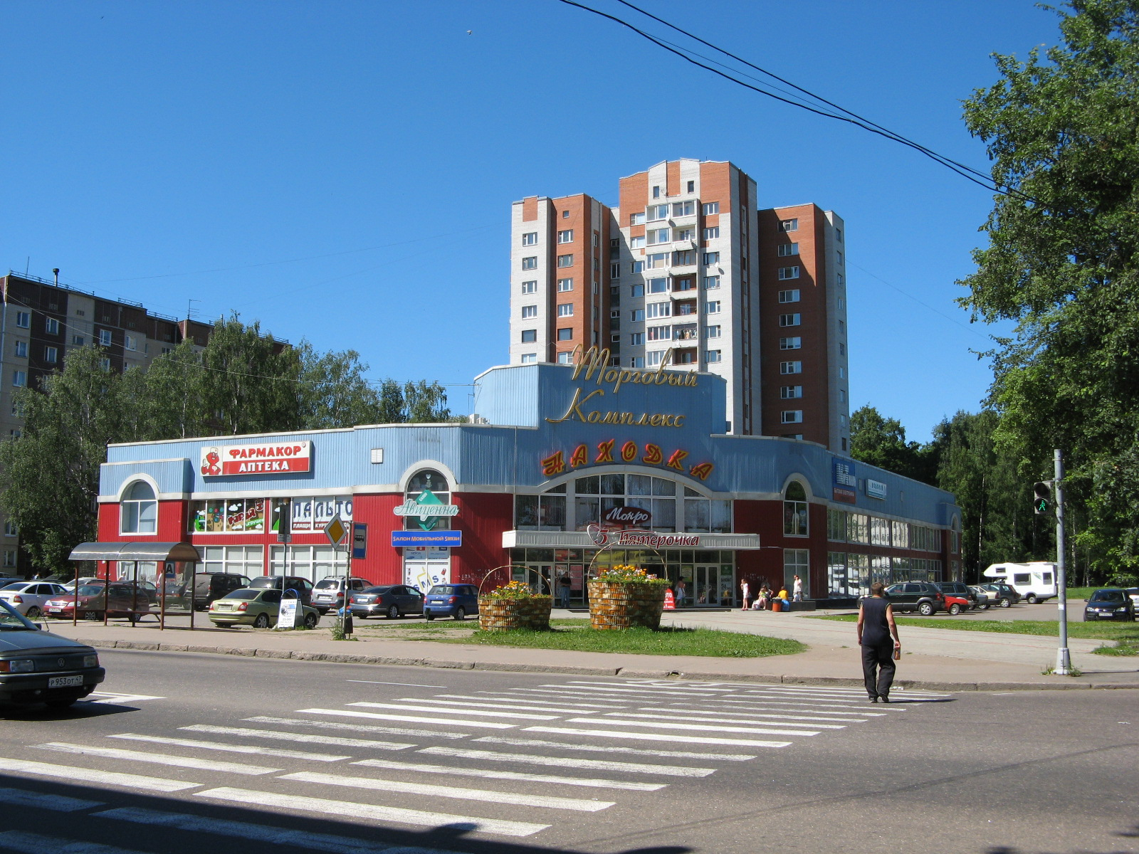 "Nahodka" shopping center in Vyborg, Russia.